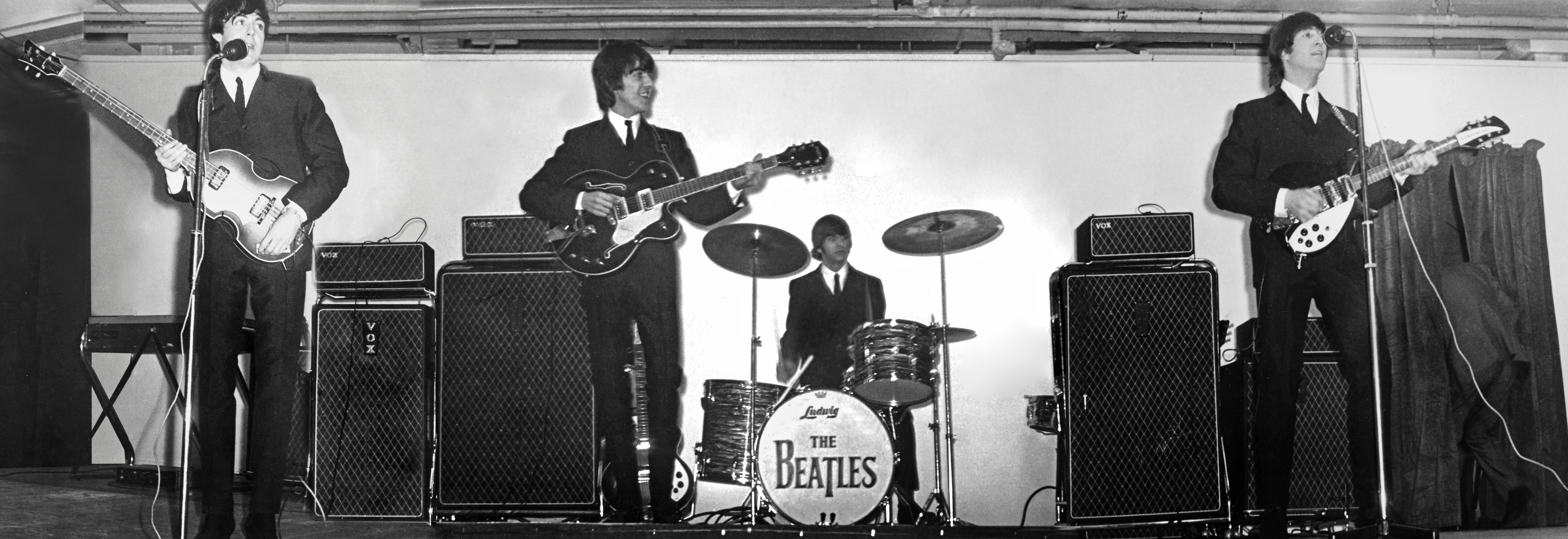 Creator: Nick Newbery, for the original shots and Garreth Montgomery from PRONI for the merged photograph. Date: 2nd November 1964. Original format: Photographic print. Description: Merged photograph showing The Beatles onstage at the King's Hall, Belfast in 1964. PRONI ref: D3300/210/1/1 Original Picture Credit: Nick Newbery Copying and copyright: Please For Copy Orders, contact: For fees and charges